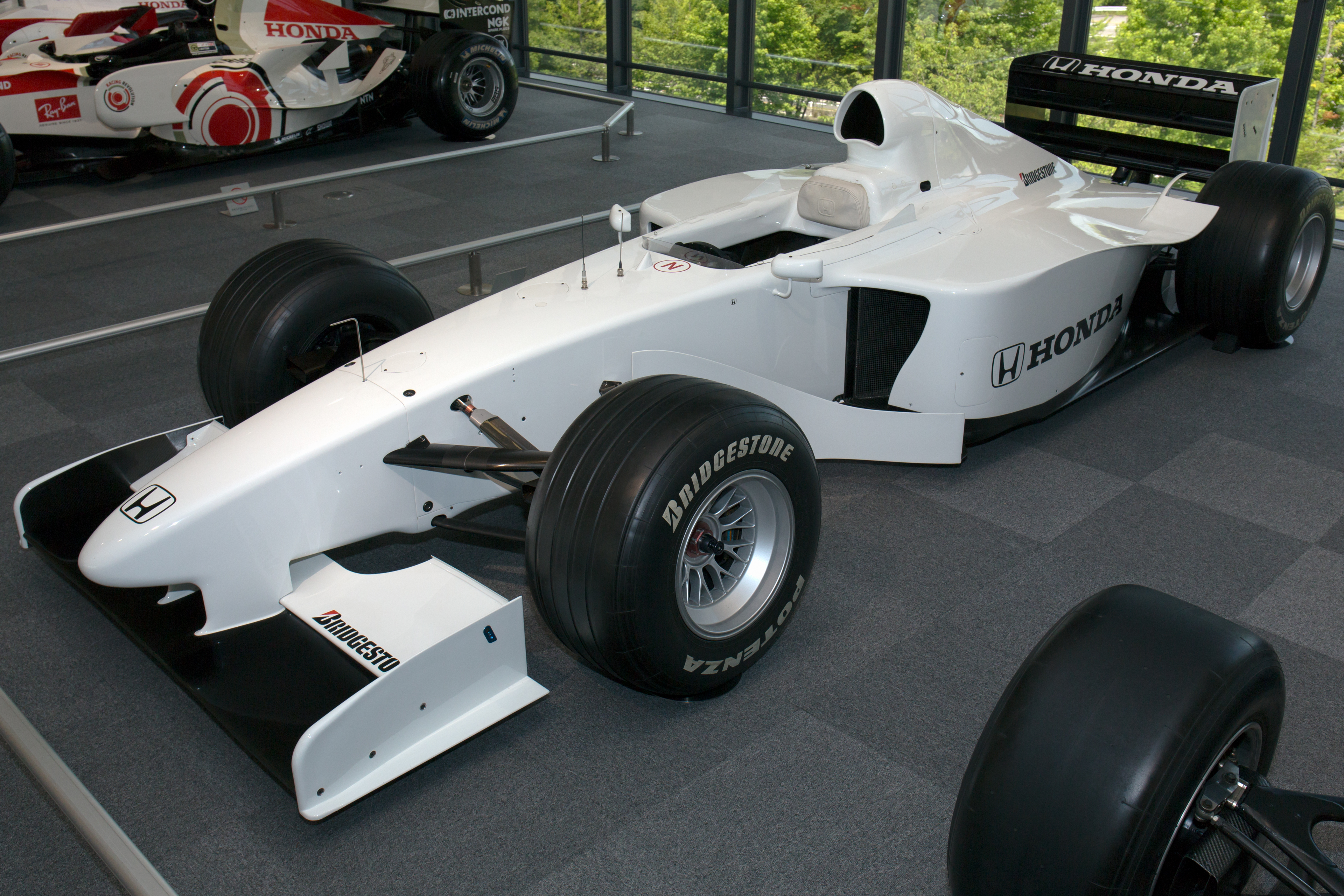 1999 Honda RA099